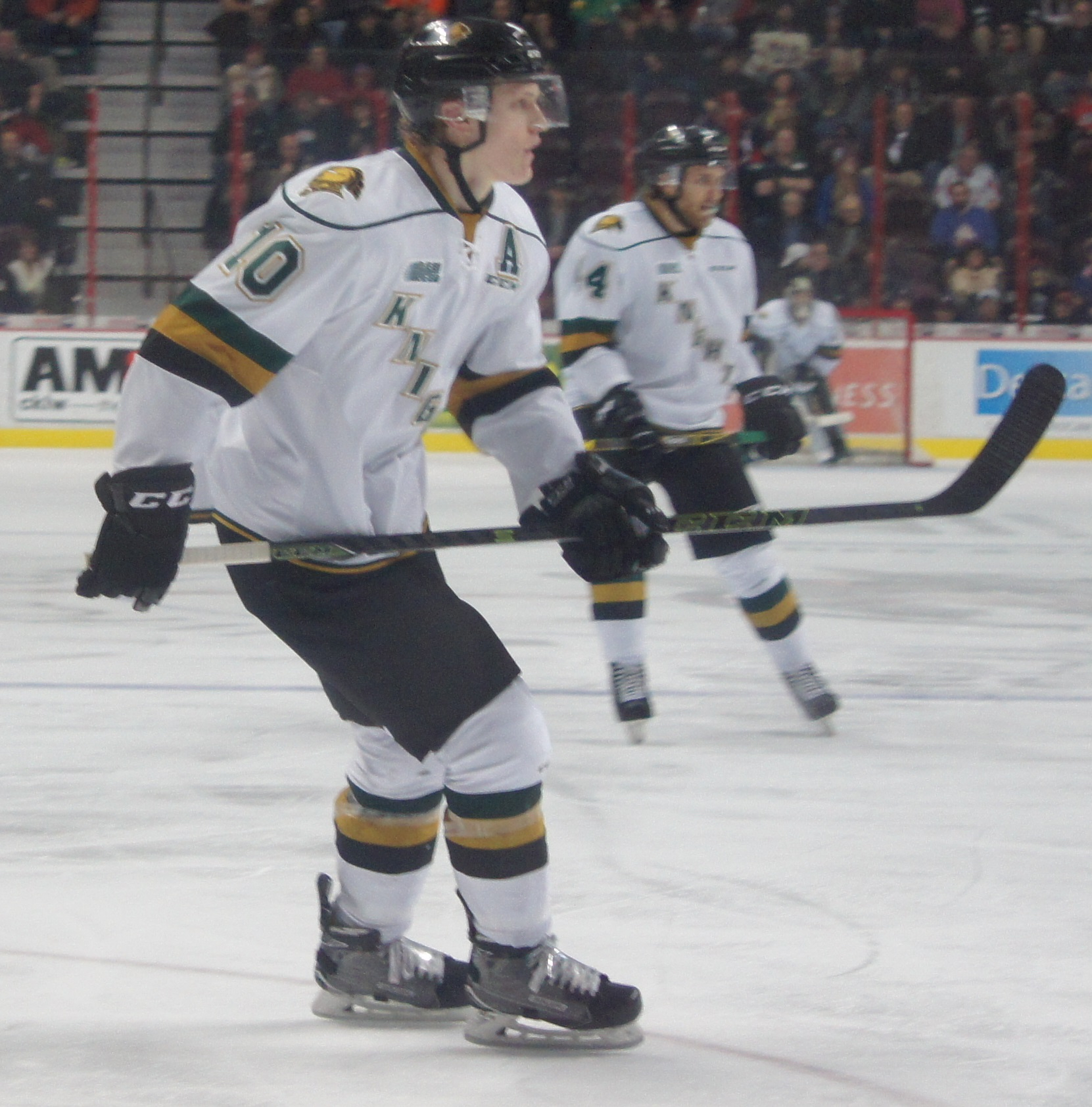 Christian Dvorak playing for the London Knights against the Windsor Spitfires, Jan. 30, 2016